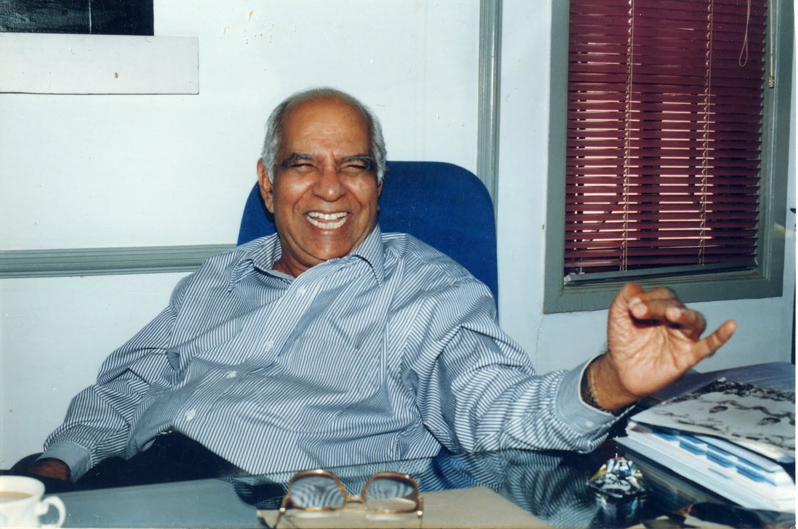 At Residence